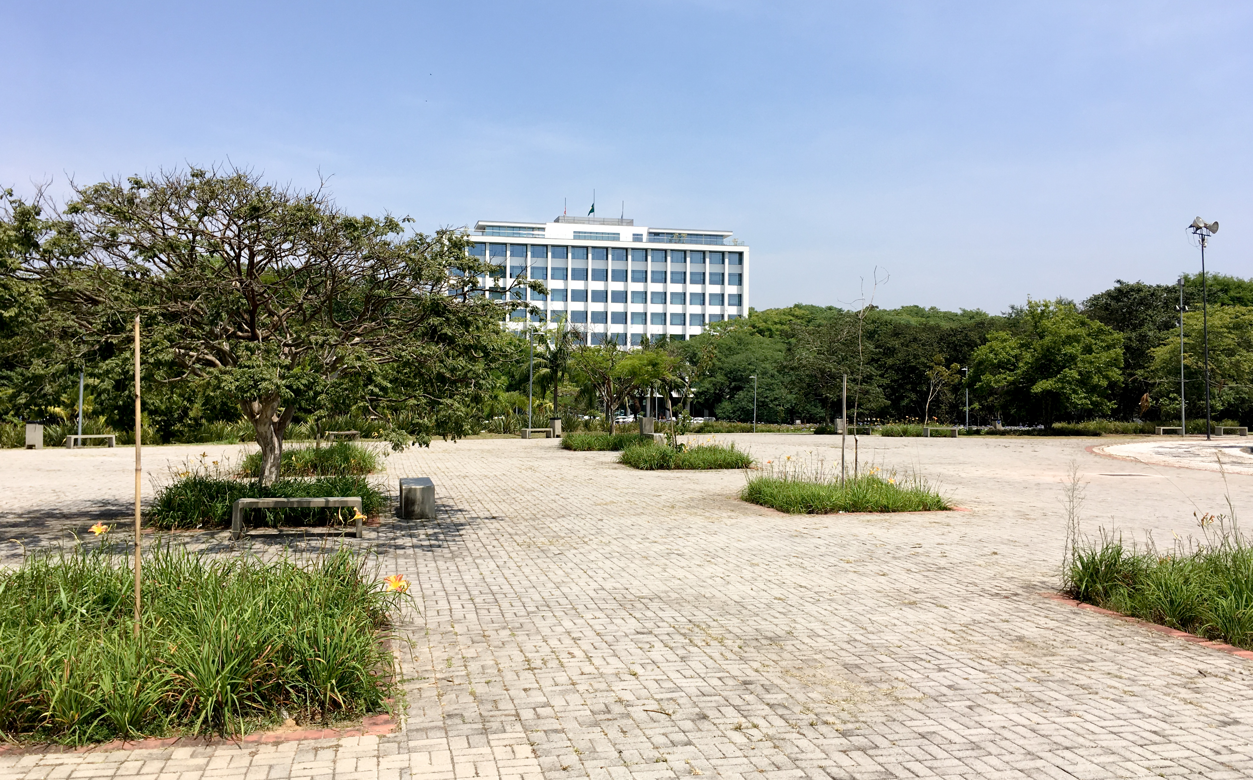 University of São Paulo, Brazil.